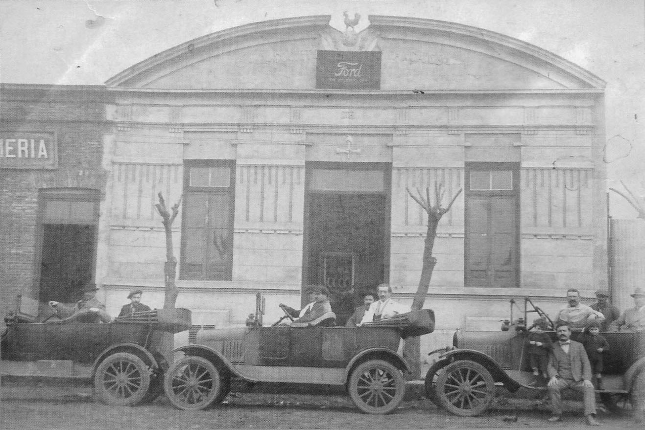 A Ford dealership in the city of Los Toldos, in Buenos Aires Province.